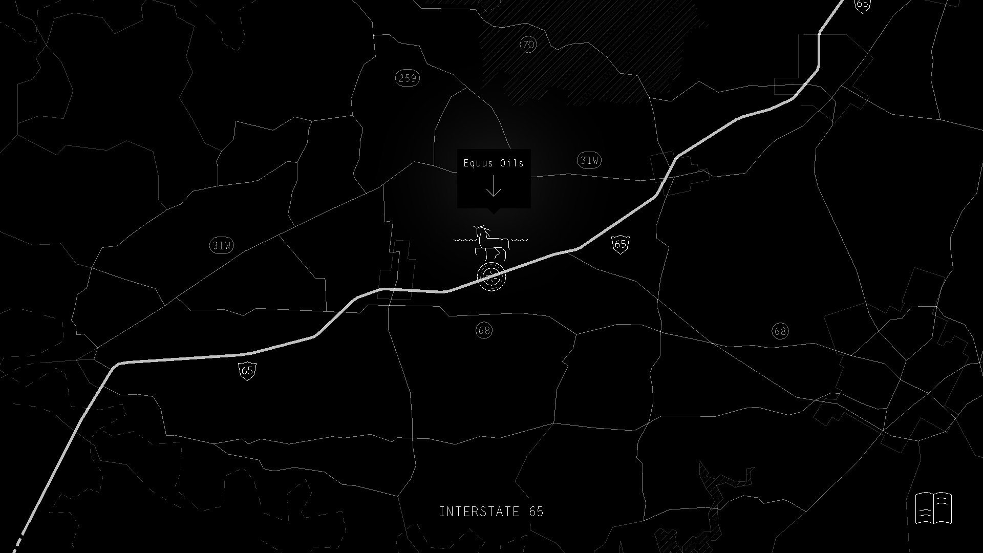 Screenshot of the game Kentucky Route Zero.